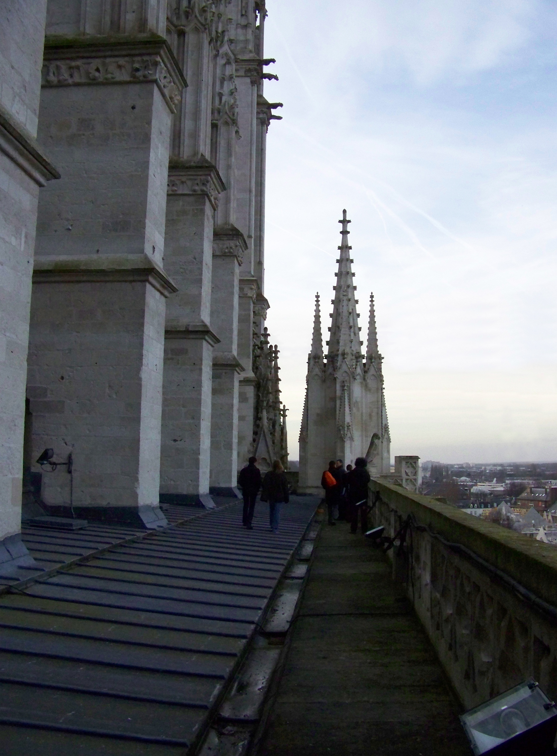 Northern roofing of the cathedral Notre-Dame in Amiens, France